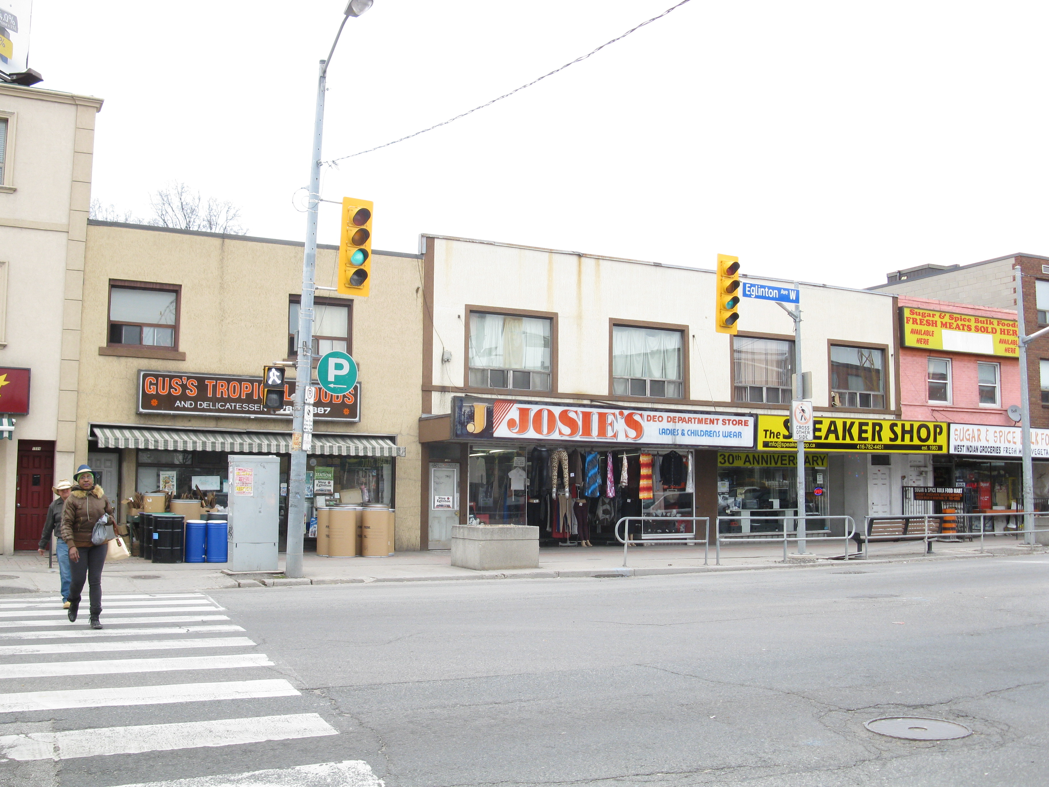 Intersection of Oakwood and Eglinton, 2013 04 09 -ak On April 9, 2013, the day the first tunnel boring machine started to bore the Eglinton Crosstown I bought a TTC day pass and got off to take "before" pictures of the site of every future underground station between Mount Dennis and Yonge Street. I plan to return for "after" pictures when the Crosstown opens in 2020. This photo was taken near the future site of the Oakwood Avenue LRT Station.